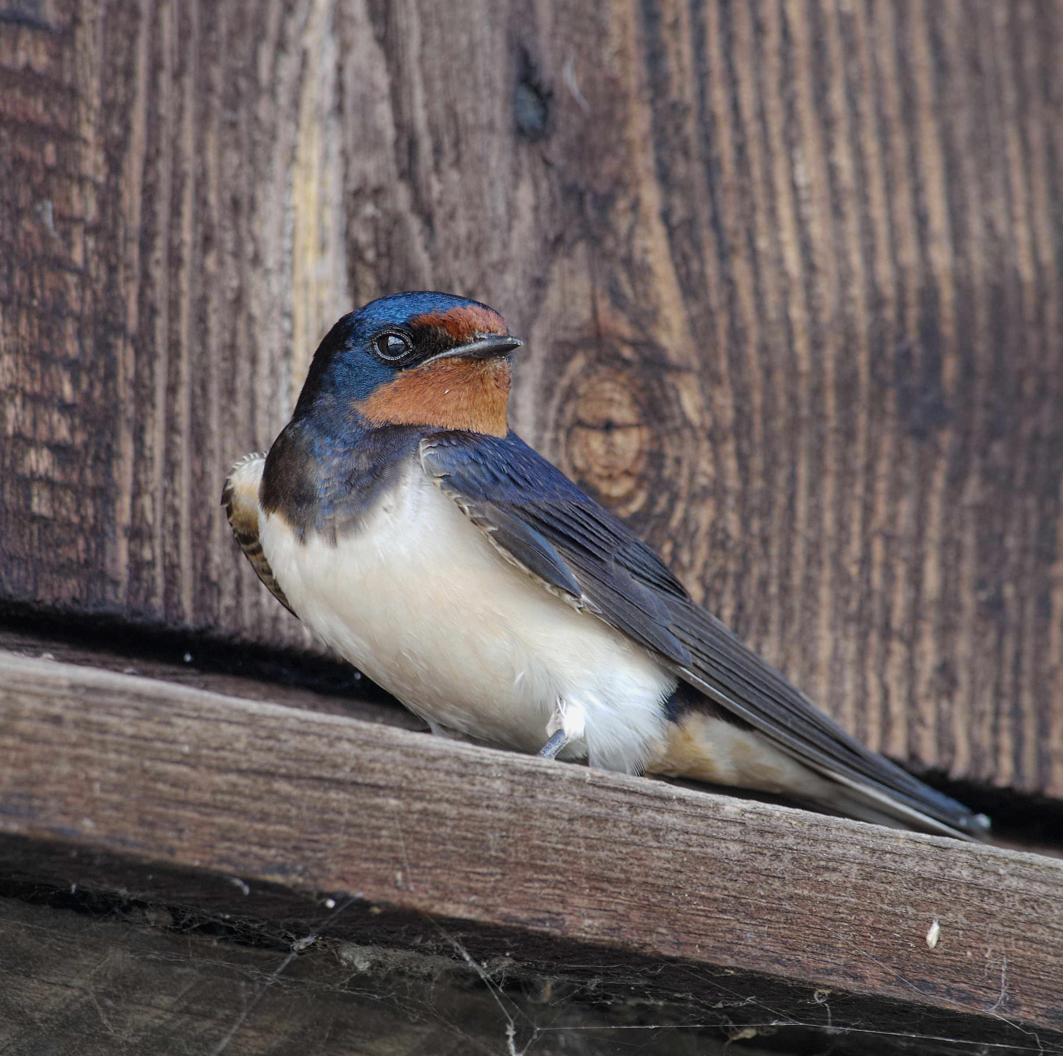 Barn swallow - Hirundo rustica. Taken in Wesenberg, Mecklenburg-Western Pomerania, Germany.